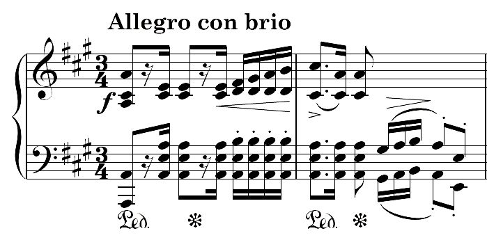 Chopin's Polonaise in A major, Op. 40 No. 1